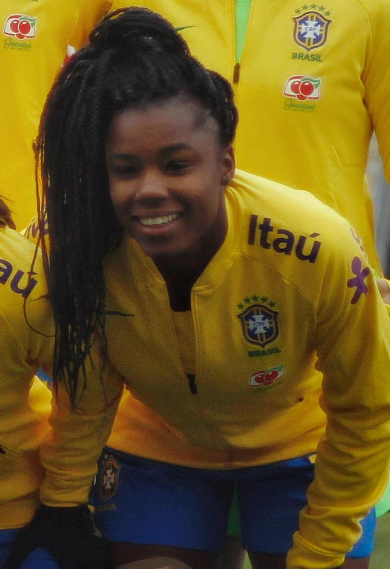 Ludmila da Silva playing for Brazil against Japan at the 2019 SheBelieves Cup on February 27, 2019.